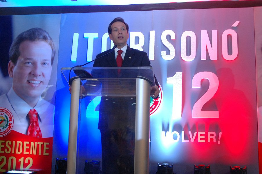 Campaign launch in Santiago